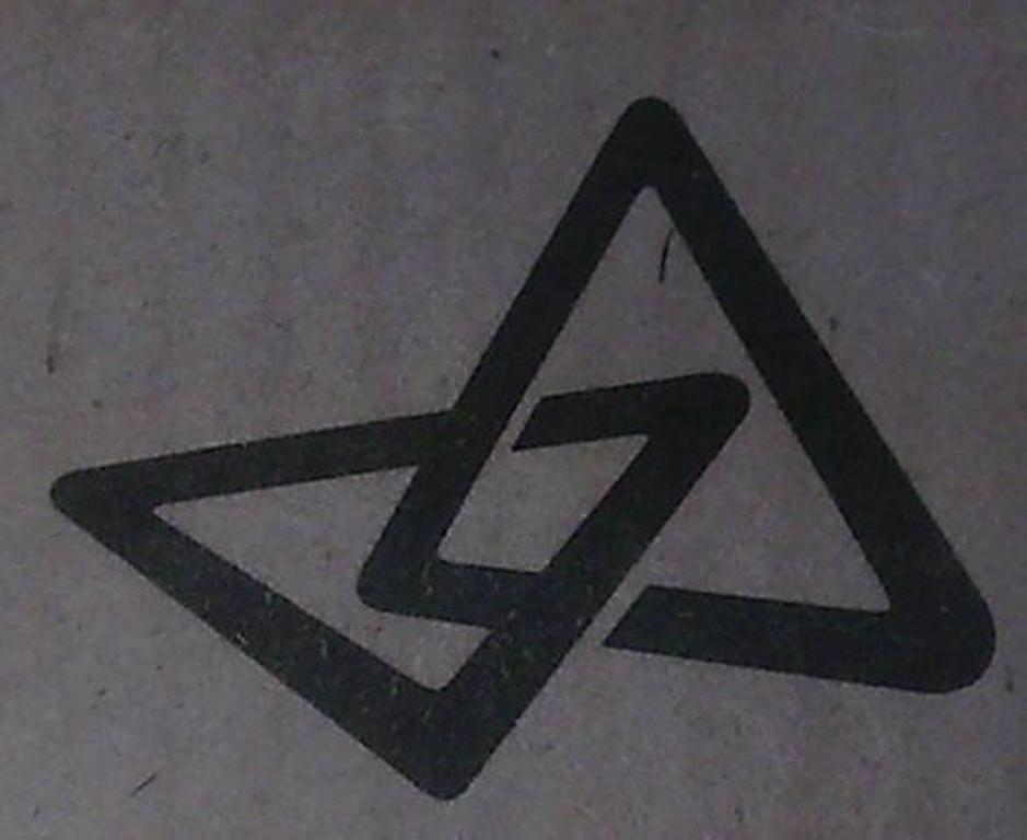 Logo of Canara bank